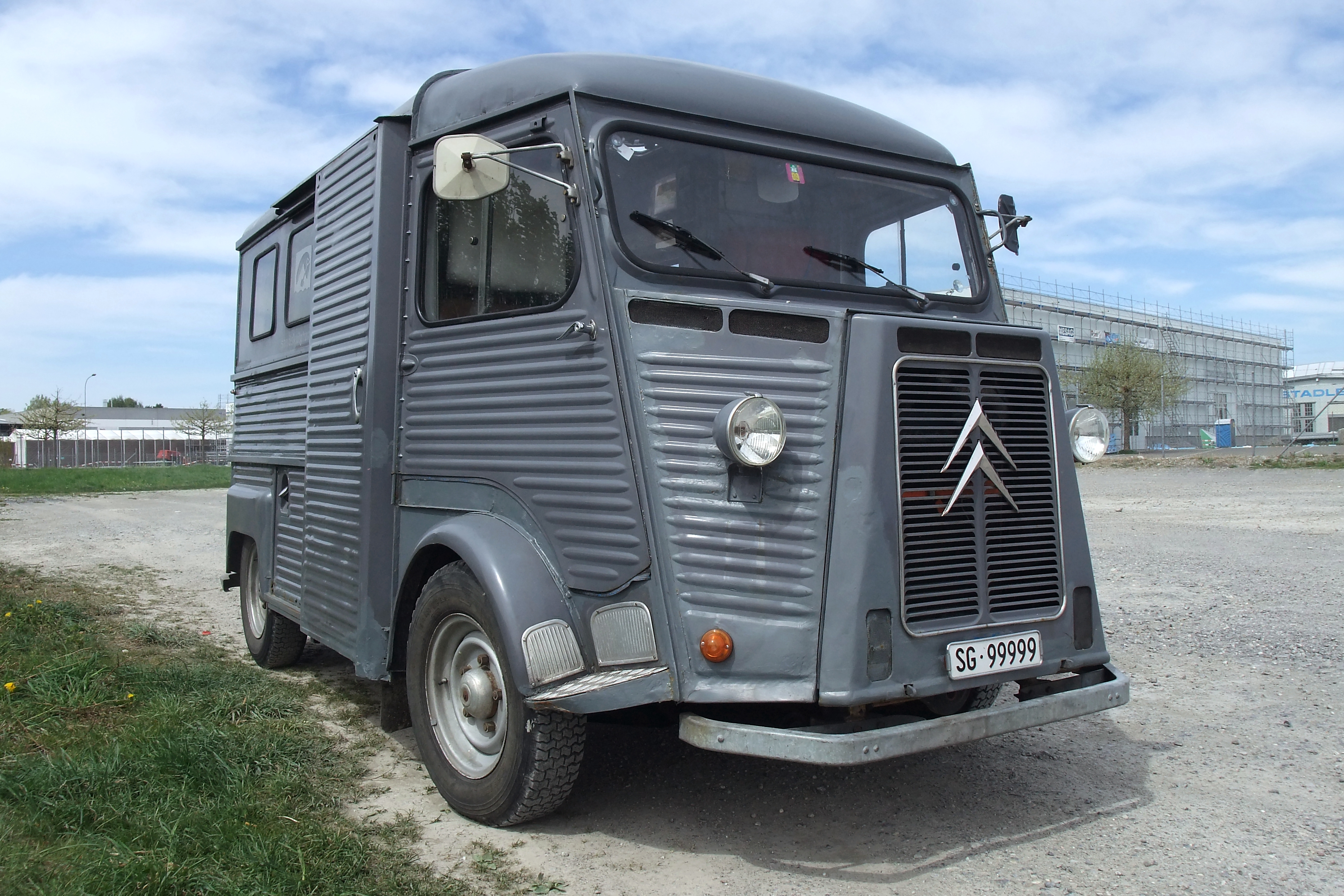 A Citroën HY at Altenrhein, Switzerland, April 26th, 2009.